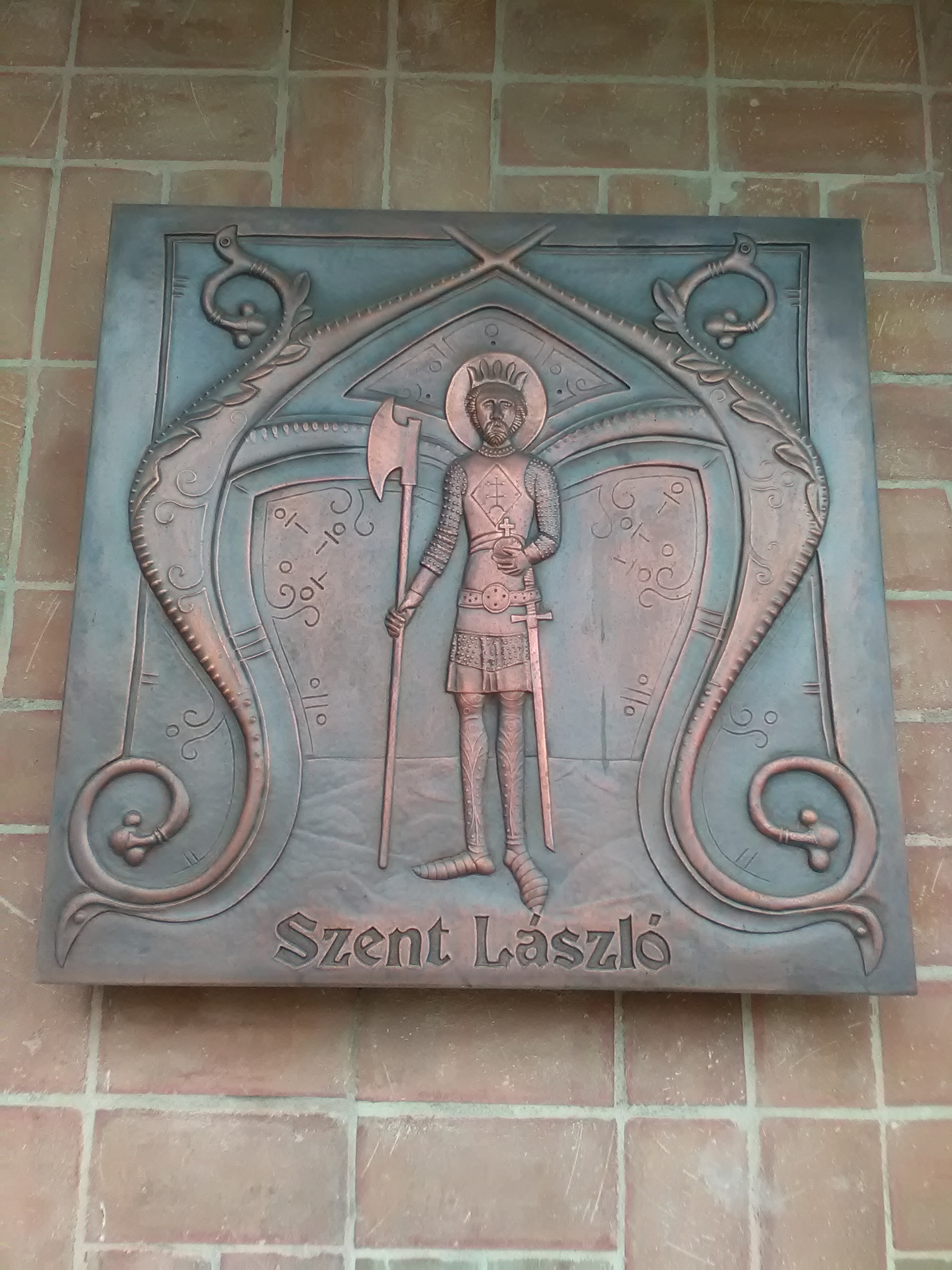 Plaque of Saint Ladilaus, King of Hungary at National Memorial, Székesfehérvár, Hungary